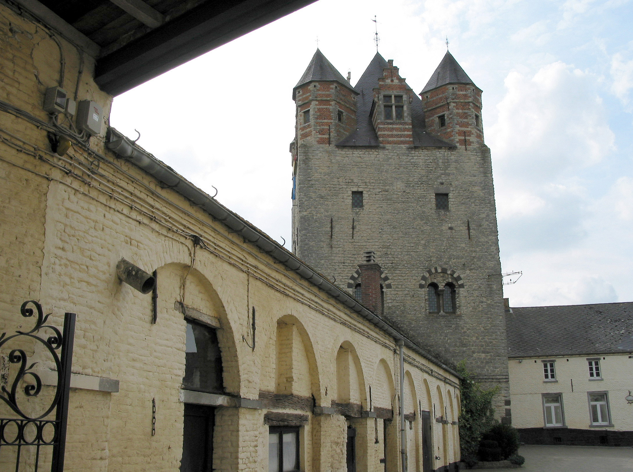 Céroux-Mousty (Belgium), the Moriensart Castle farm (XVIII-XIXth century) and her keep (first part of the XIIIth century).